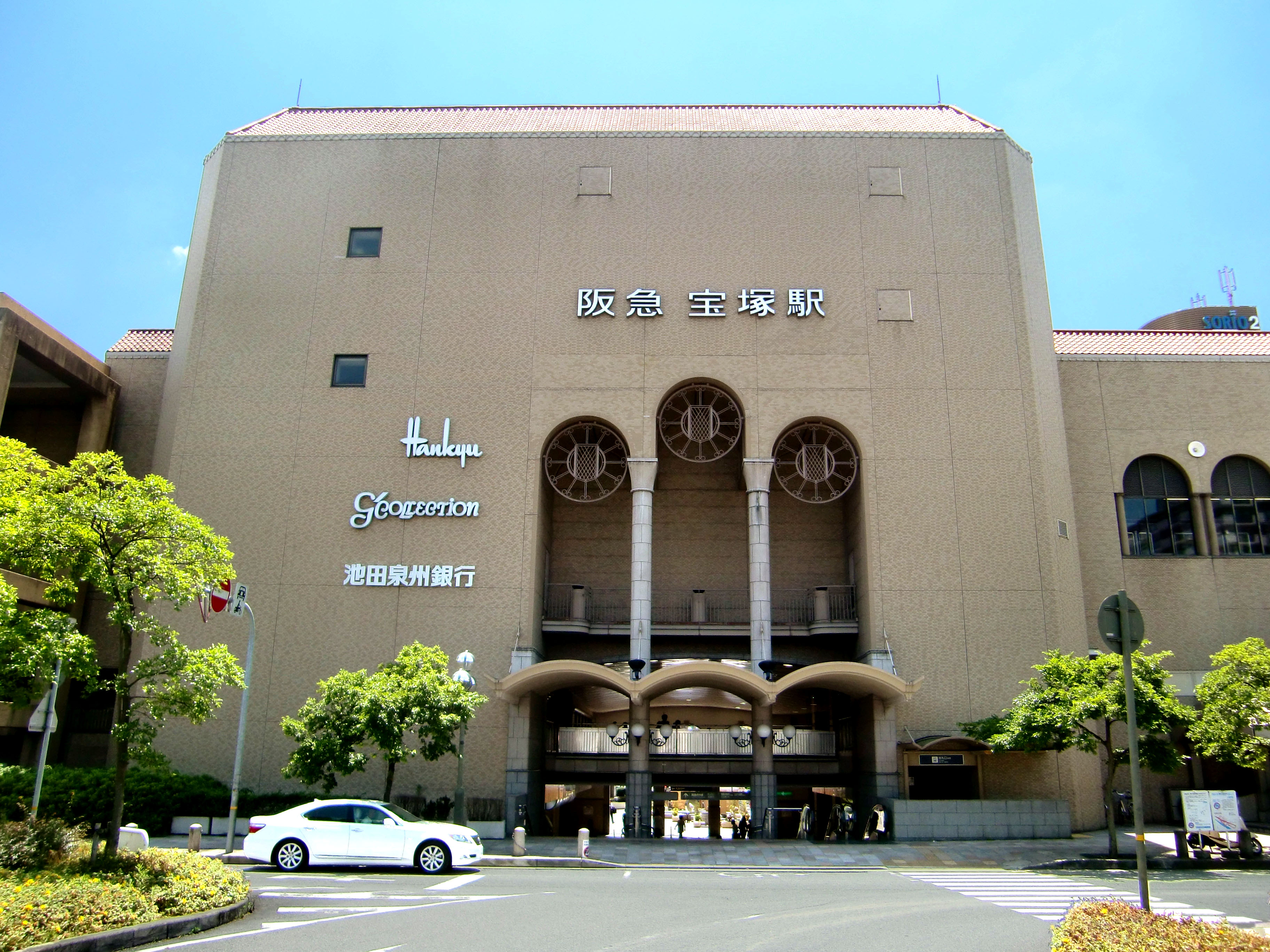 Hankyu Railway Takarazuka Station, 2-3-1 Sakaemachi Takarazuka-City Hyogo Japan.